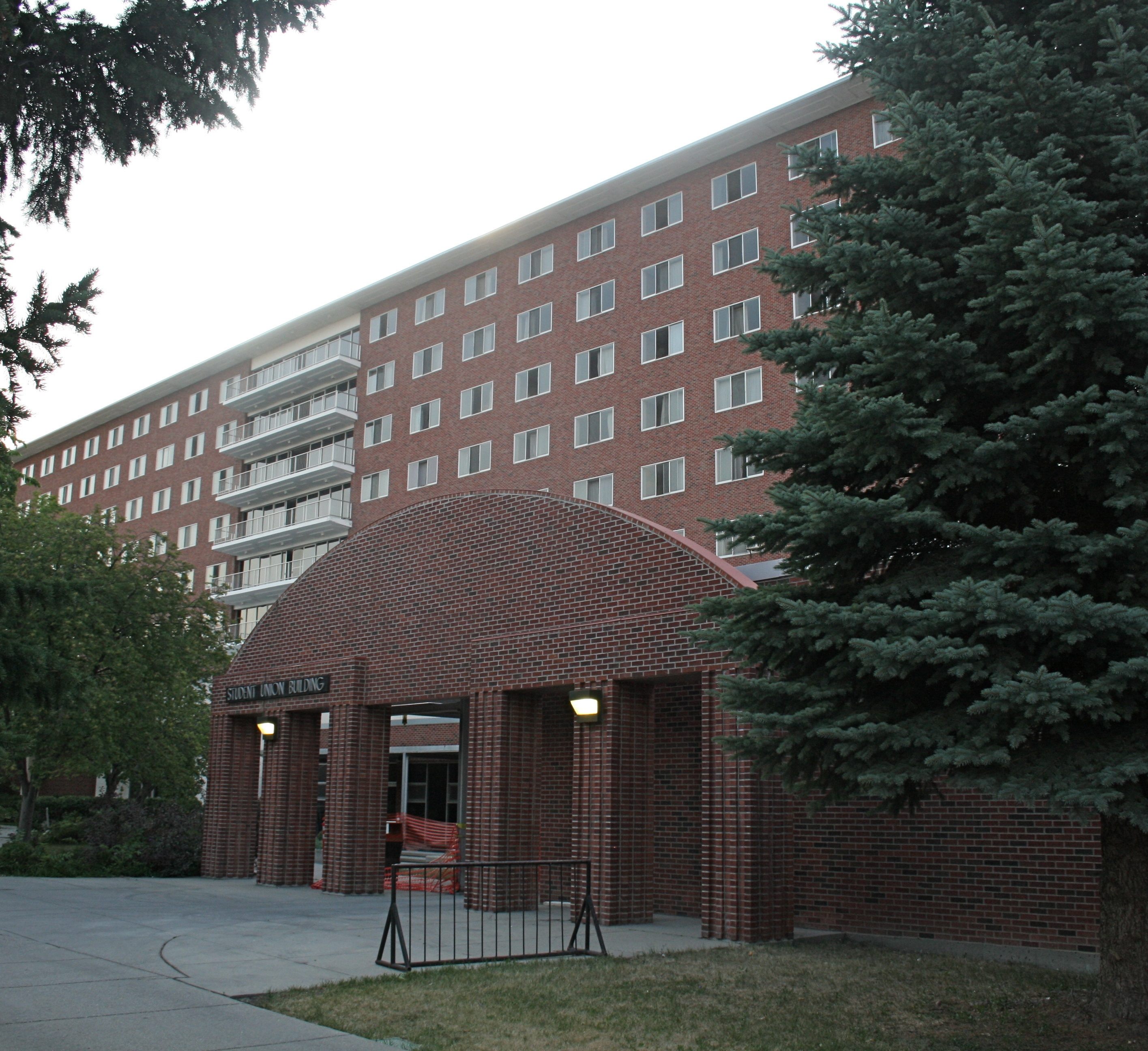 Petro Hall MSUB